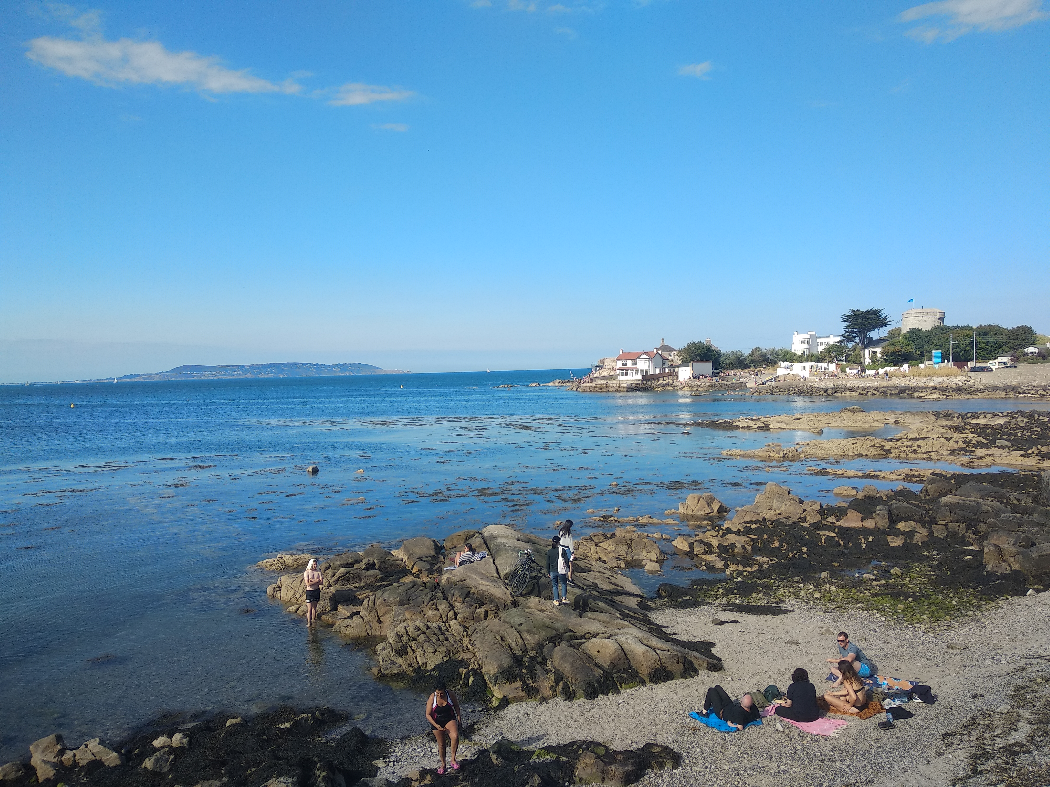 40ft Dun-Laoghaire, Howth in the distance